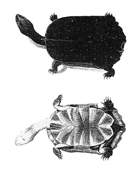 Emys Maximiliani = Hydromedusa maximiliani (Brazilian snake-necked turtle)